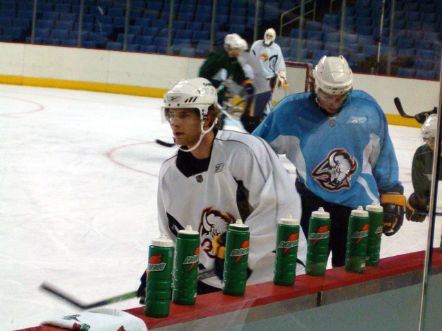 Jason Pominville, ice hockey right winger of the Buffalo Sabres in training camp Sept. 2006, Maxim Afinogenov in light blue jersey behind